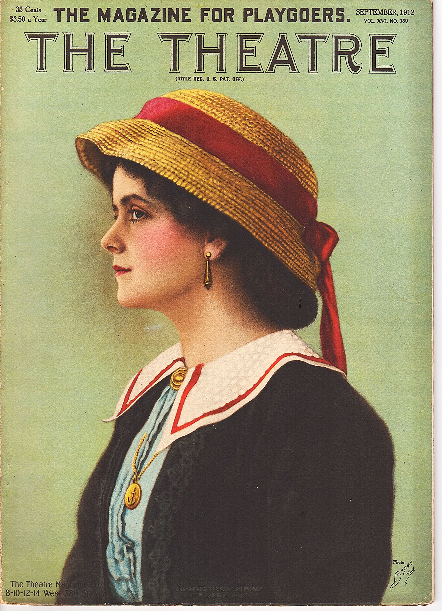 Stage actress Molly Pearson on the cover of "The Theatre" magazine